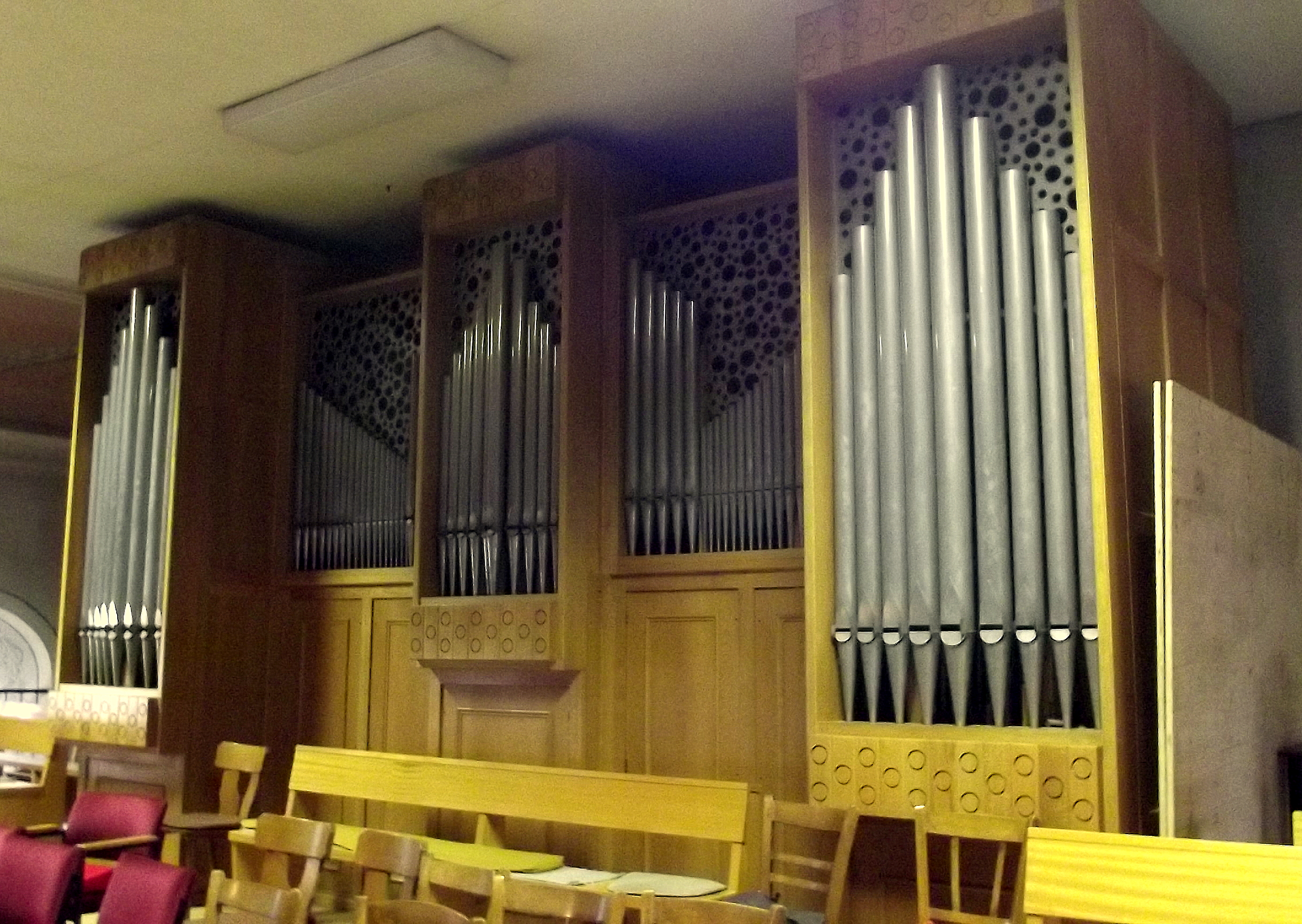 Interior of the roman catholic church in Furschweiler, Saarland